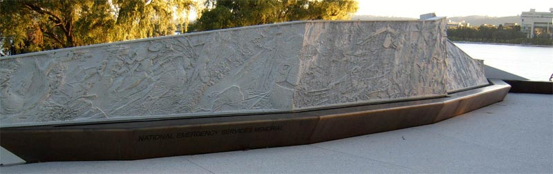 National Emergency Services Memorial on ANZAC Parade, Canberra, west face (detail). I took this picture Peter Ellis 22:56, 22 Apr 2005 (UTC)